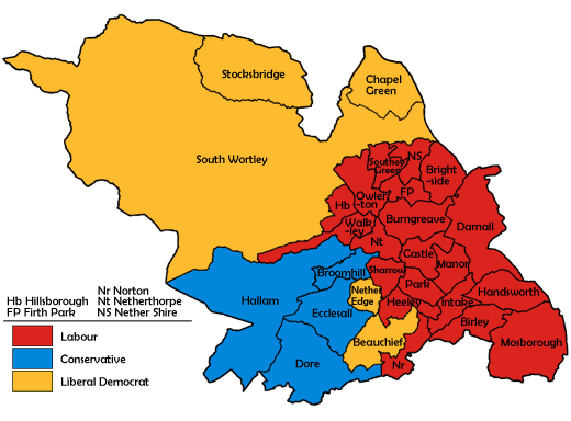 Ward map of Sheffield Council with political colouring for the 1992 election.